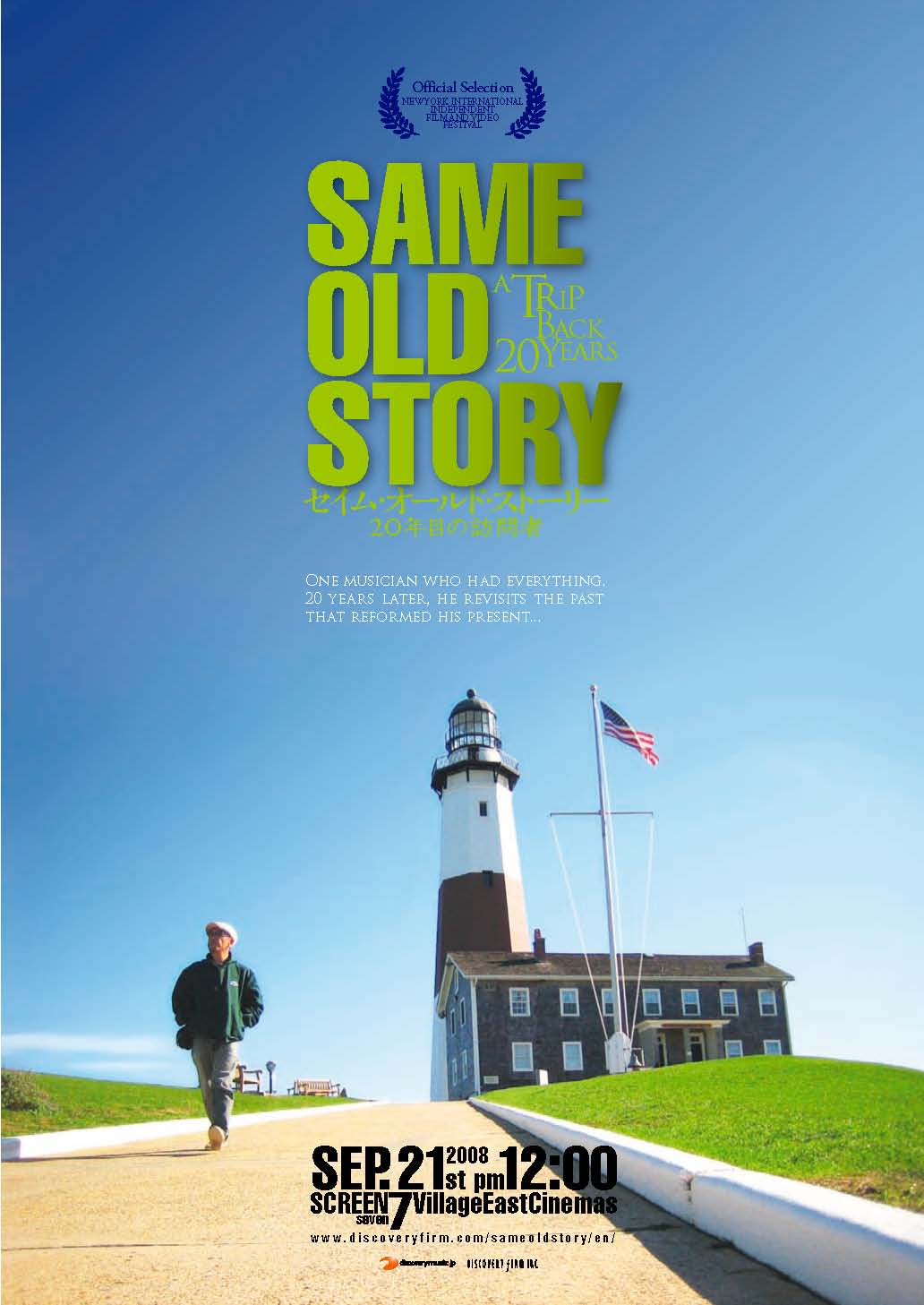 Movie Poster for Same Old Story